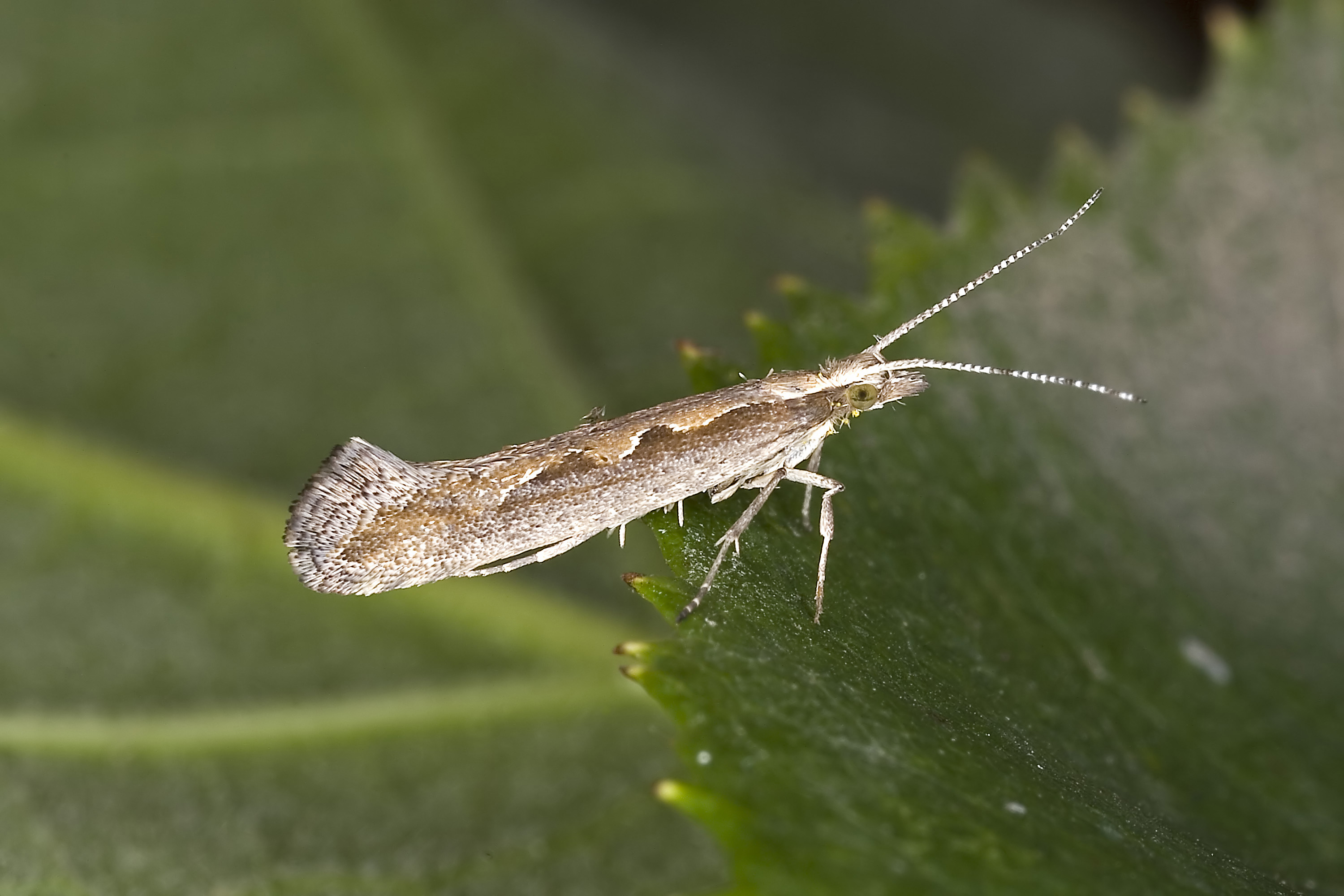 Plutella xylostella (Linnaeus, 1758) Location: Dresden, Pohrsdorfer Weg (Saxony, Germany) 8/65 f16 Film / Speed: ISO 100 Comment: Canon Ring Flash MR14-EX